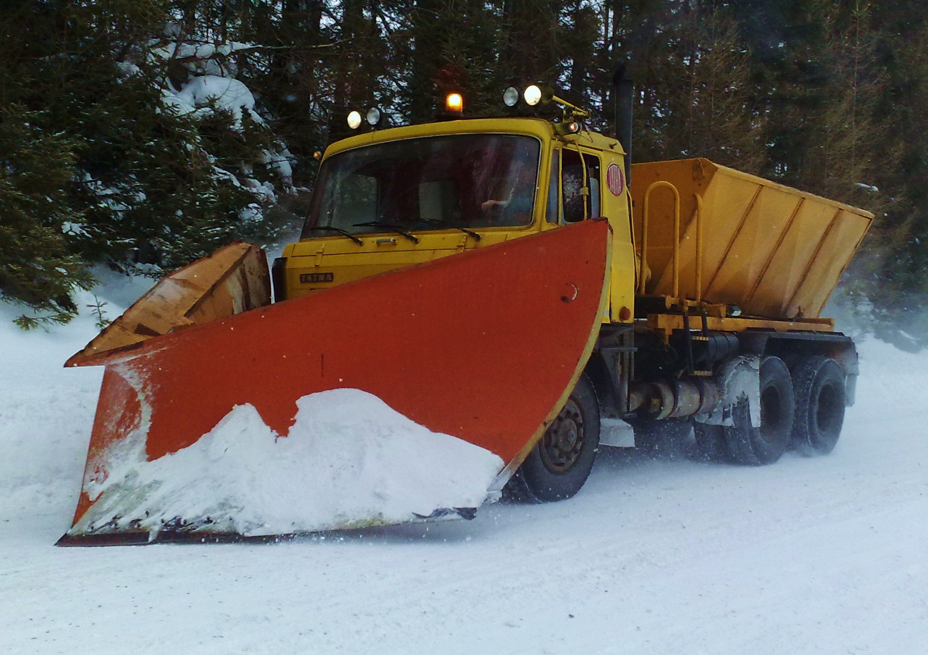 Tatra 815 6x6 snow plough